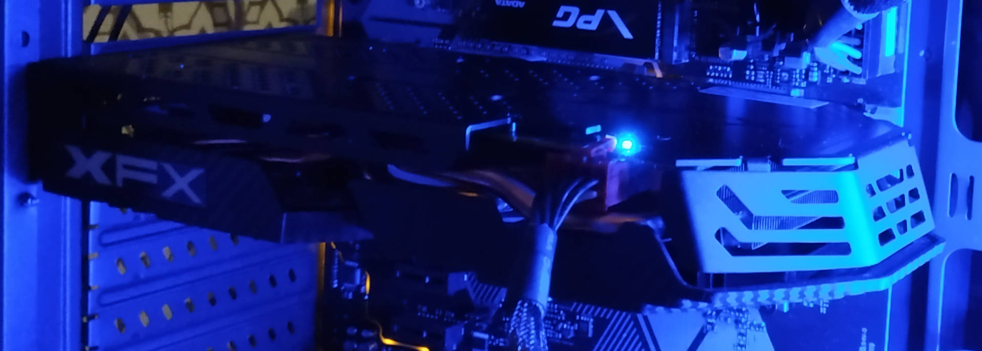 XFX Radeon RX 580